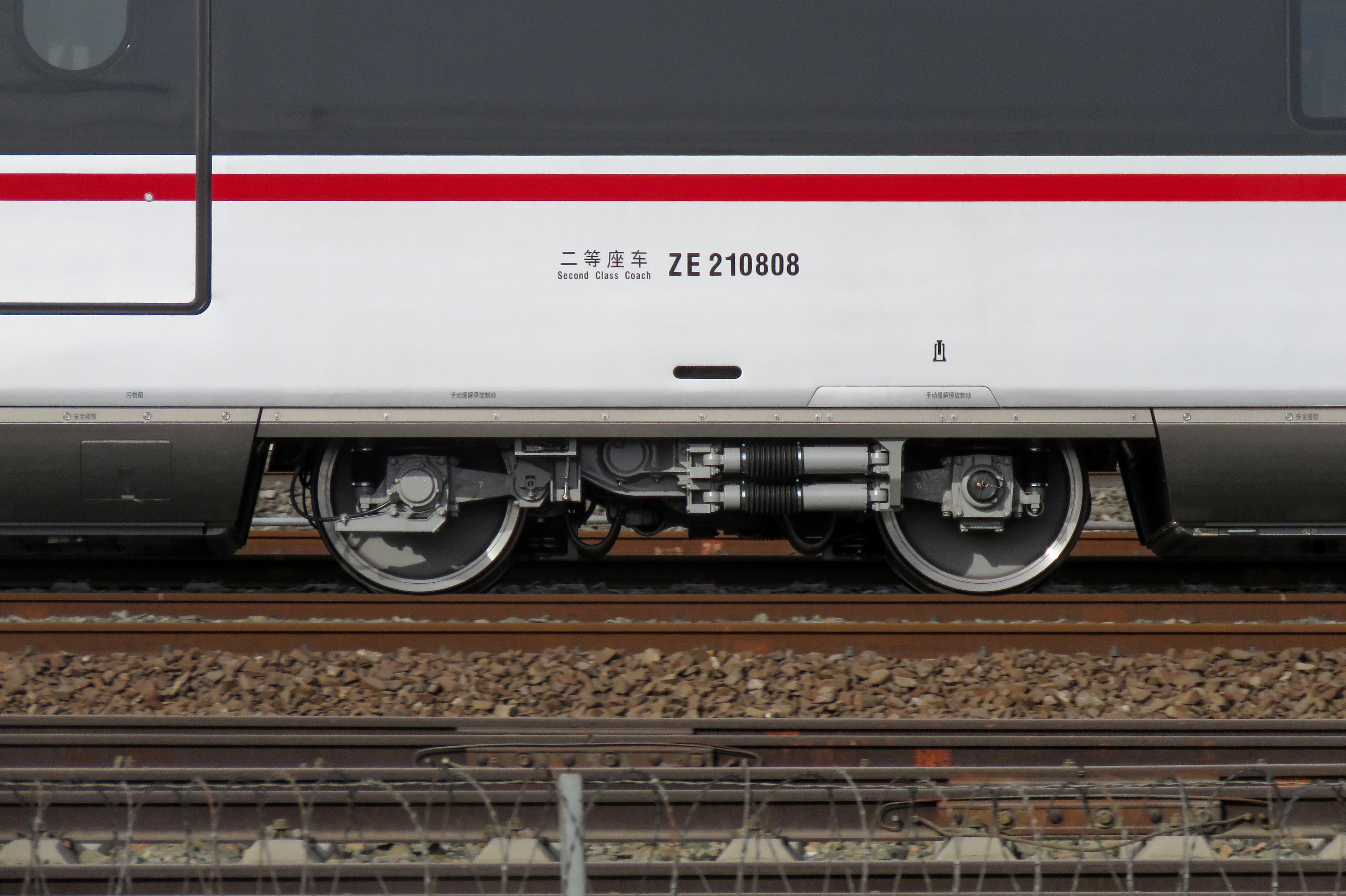 G178 from Qingdao, using brand new AF-A.